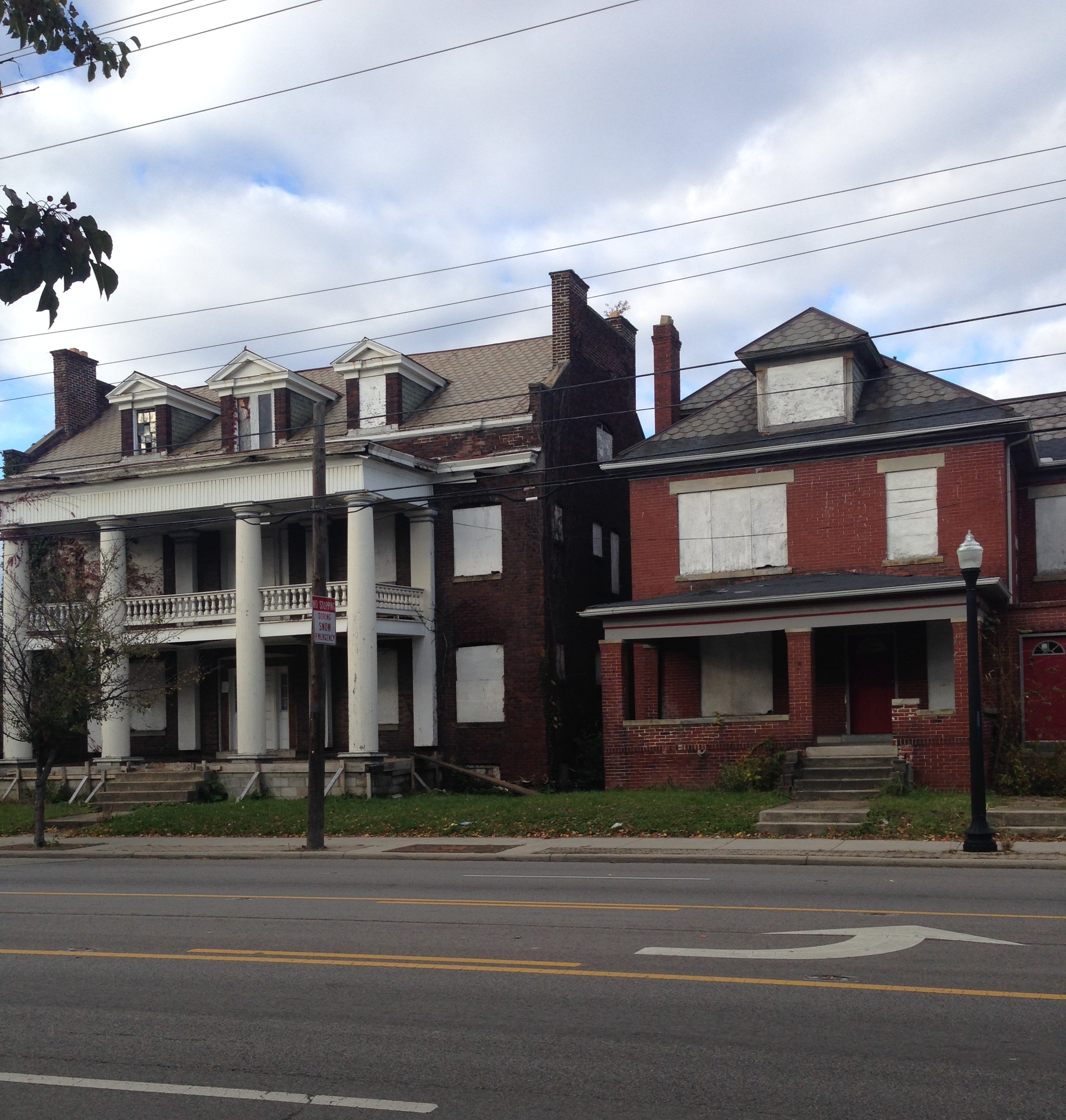 Street view of Olde Towne East